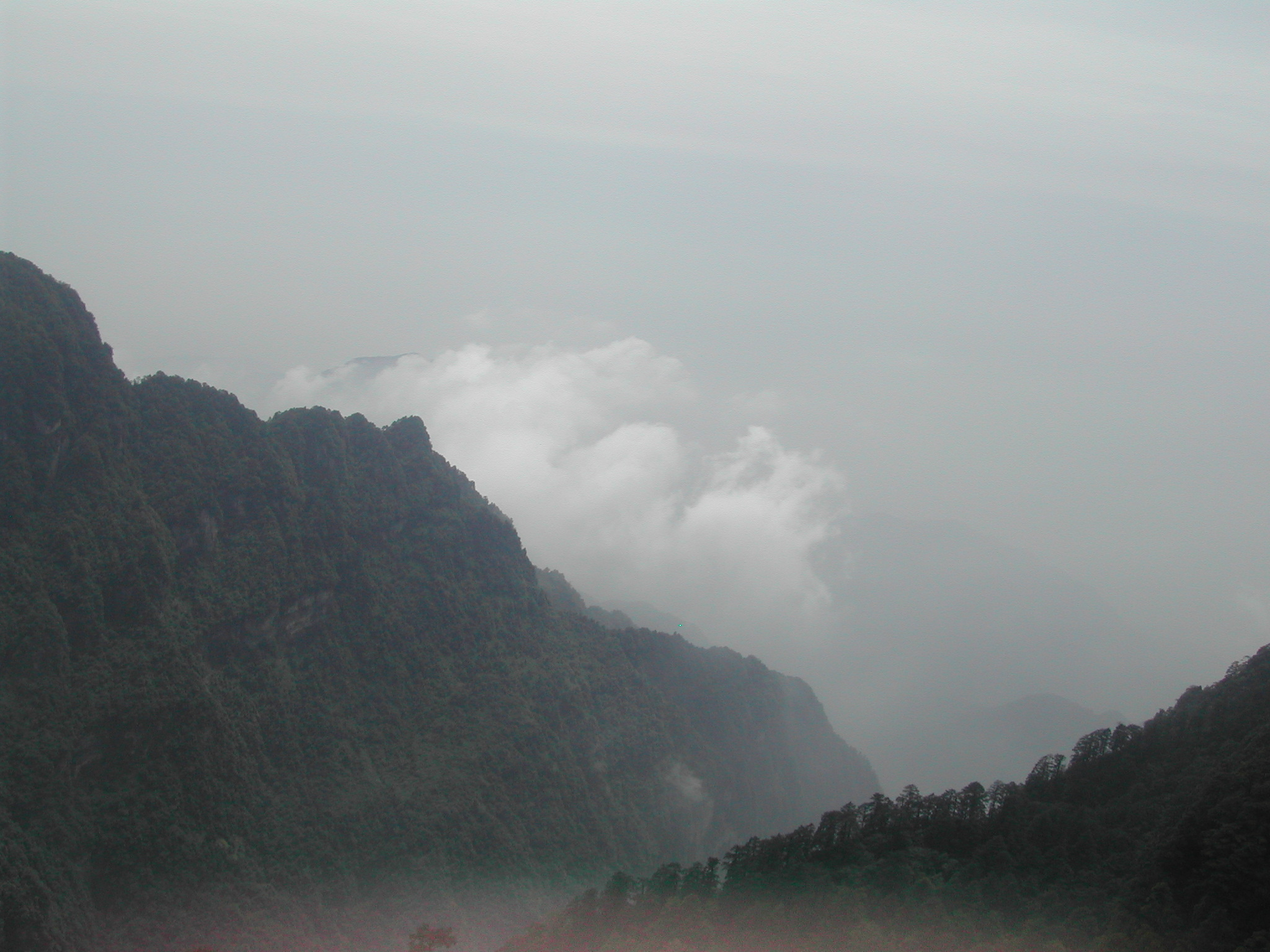 Mount Emei Scenic Area, including Leshan Giant Buddha Scenic Area (China)